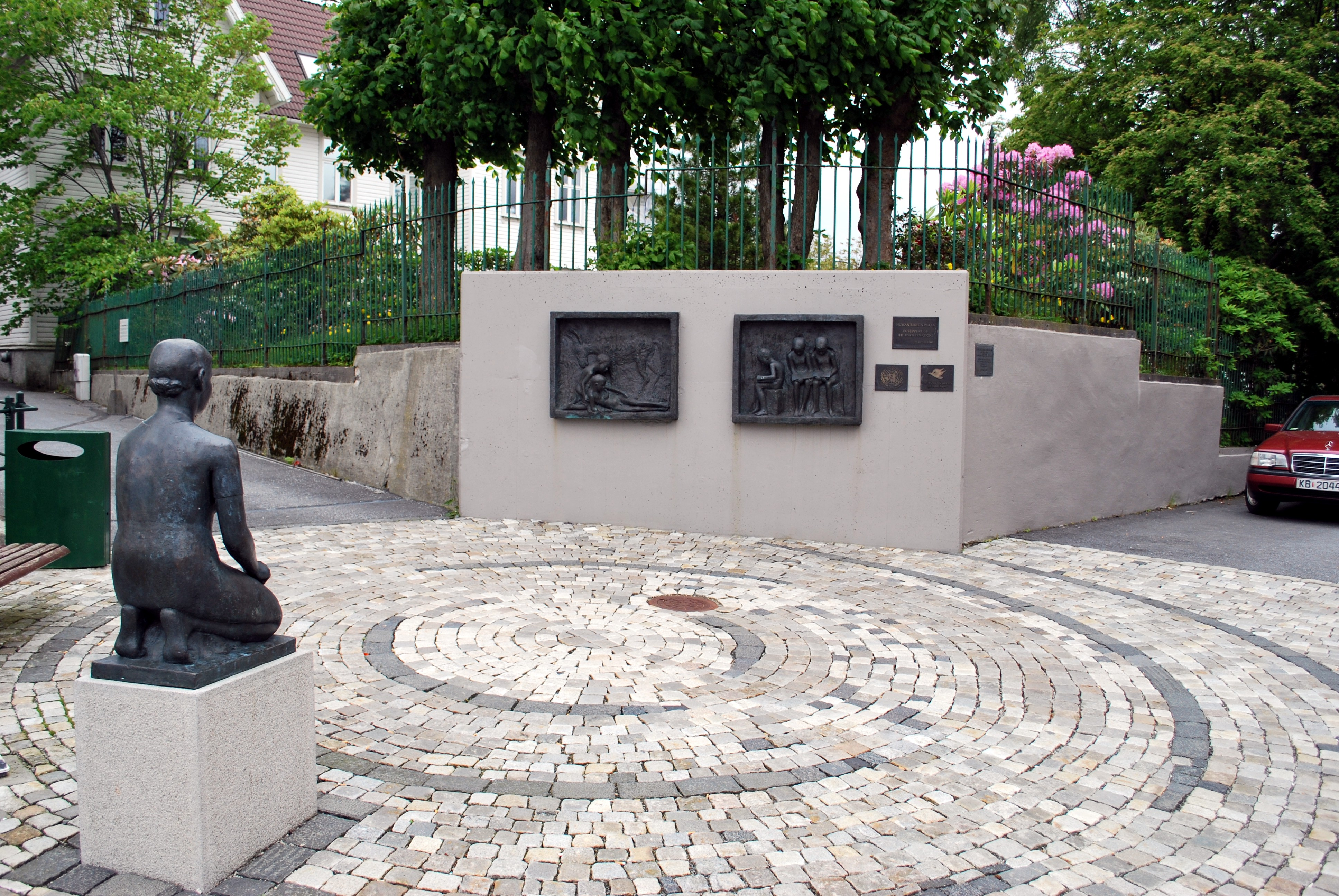 Human Rights Plaza, Menneskerettighetenes plass, Bergen, Norway.